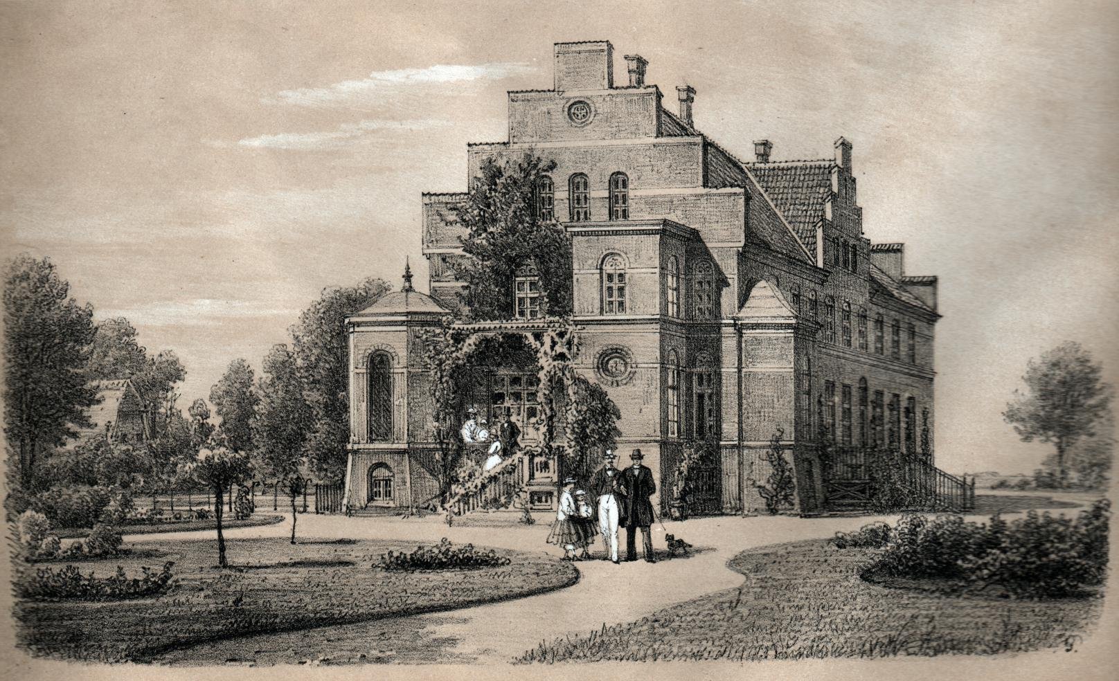 Scanned by myself from a copy of the old book in 2007. The book was graciously lent to me by Det Kongelige Garnisonsbibliotek.